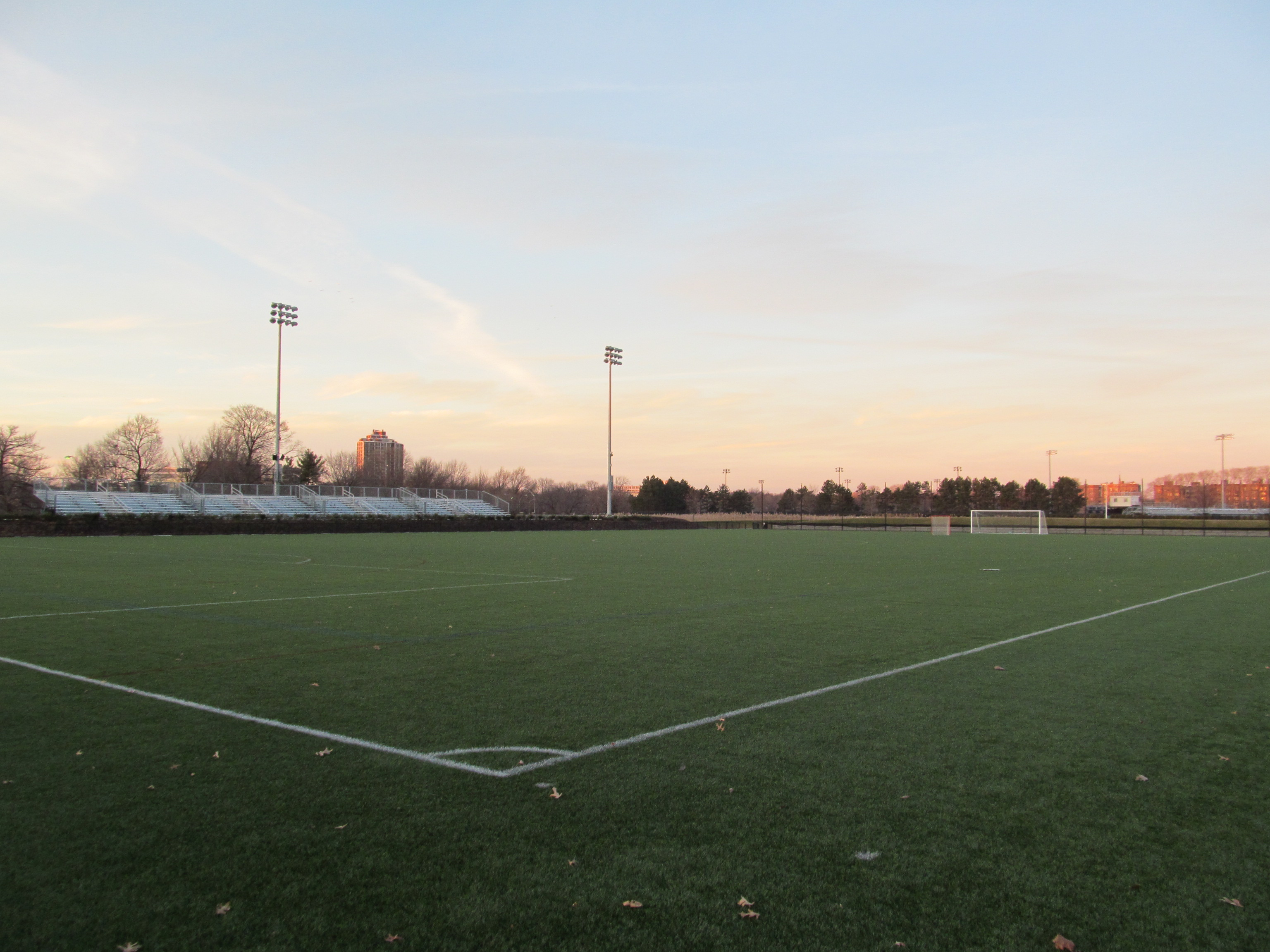 Soldiers Field Soccer Stadium, Allston Massachusetts